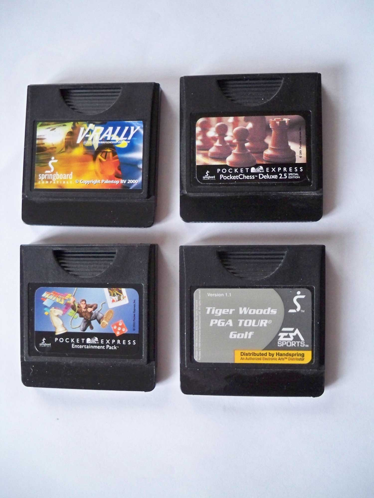 Springboard Expansion modules for PDA Handspring Visor: Games Chess, Rally, Golf